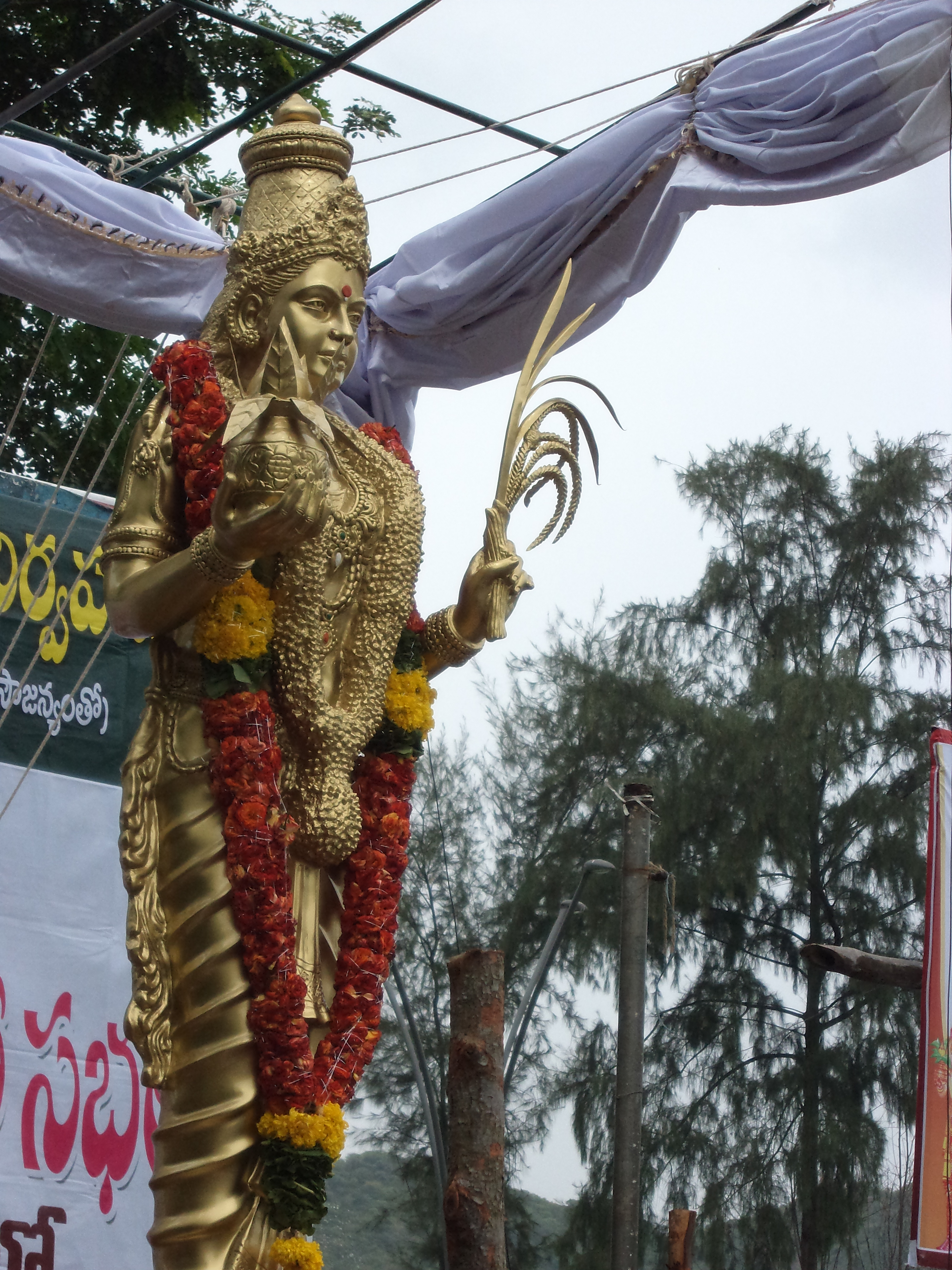 Telugu Talli statue at Vijayawada